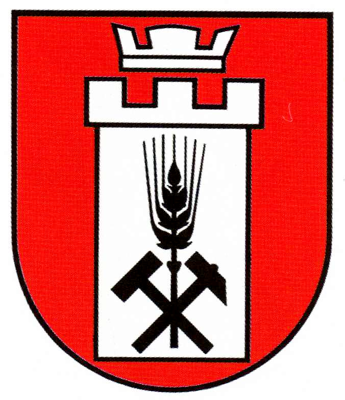 Coat of Arms of Samtgemeinde Nord-Elm